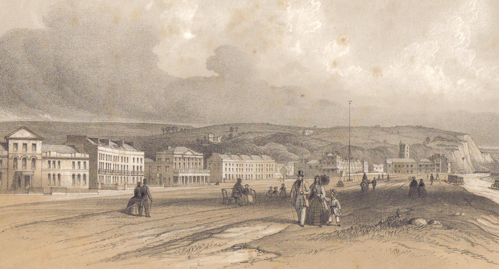 A view of Teignmouth in South Devon, Circa 1860. Woodway House may be visible in the background. Extensive woodlands still exist behind the town - hence Woodway.